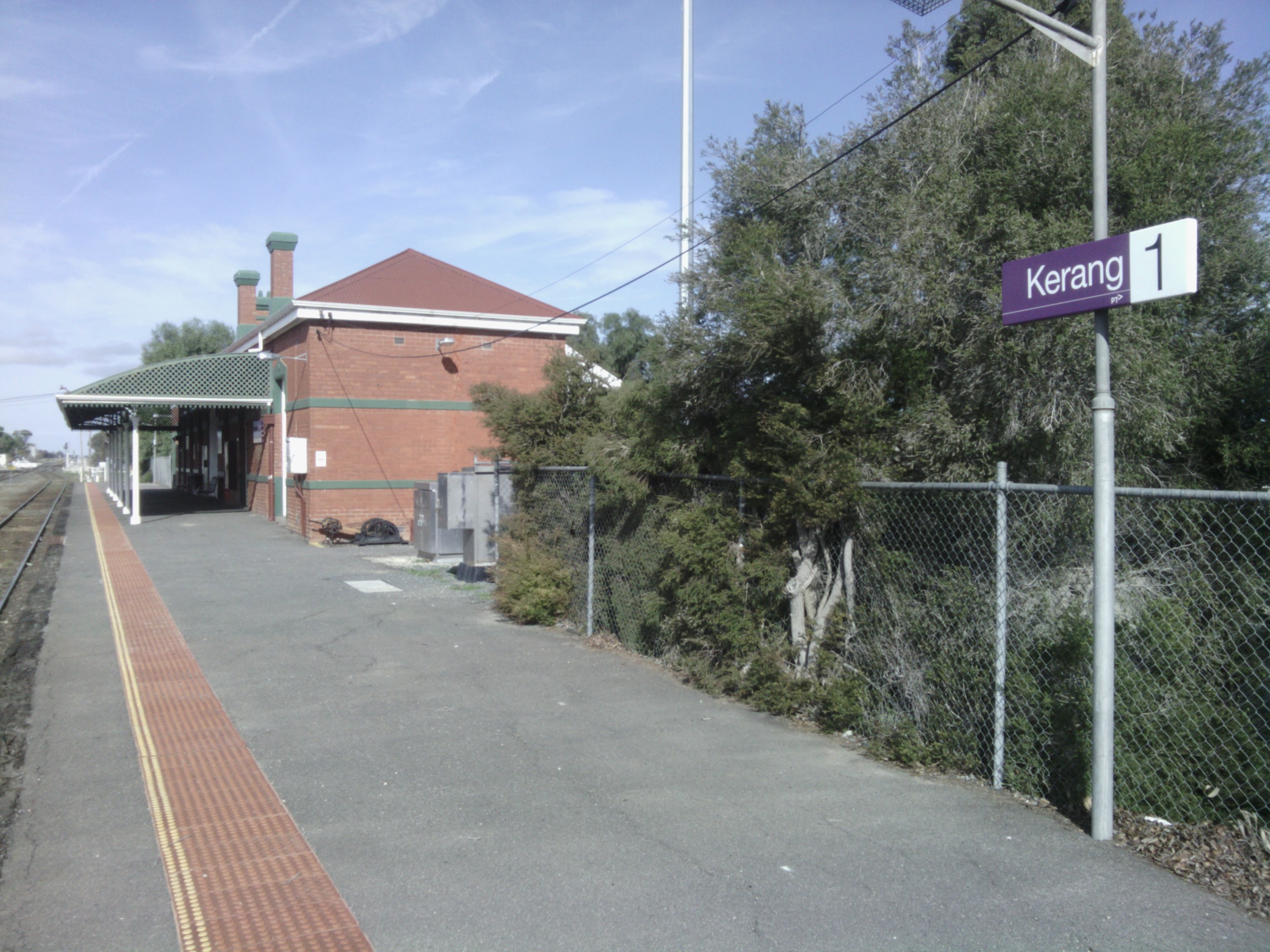 Kerang railway station platform